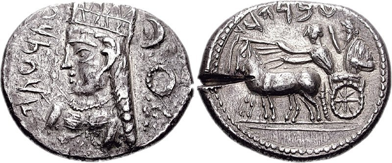 SYRIA, Cyrrhestica. Bambyce. Abdahad. Circa 342-331 BC. AR Didrachm (6.72 g, 12h). "Atarateh" in Aramaic, draped bust of Atargatis left, wearing turreted crown; crescent and circle behind / “Abdahad” in Aramaic, Great King and driver, who hold reins, in quadriga of mules left. Mildenberg, Note 12 (this coin); Seyrig, Hieropolis pl. 1, 2; Price, More 14-15; BMC -; SNG Copenhagen -; SNG München -. EF, toned, test cut on reverse. Very rare. Bambyce was famous for its cult of Atargatis, and this issue of the dynast/priest Abdahad displays the bust of the goddess on its obverse. Although the weight of this particular coin is well below the Attic didrachm standard of 8 grams, the known coins of this type do display a wide variance of weights. The reason for this variance is as yet unknown.